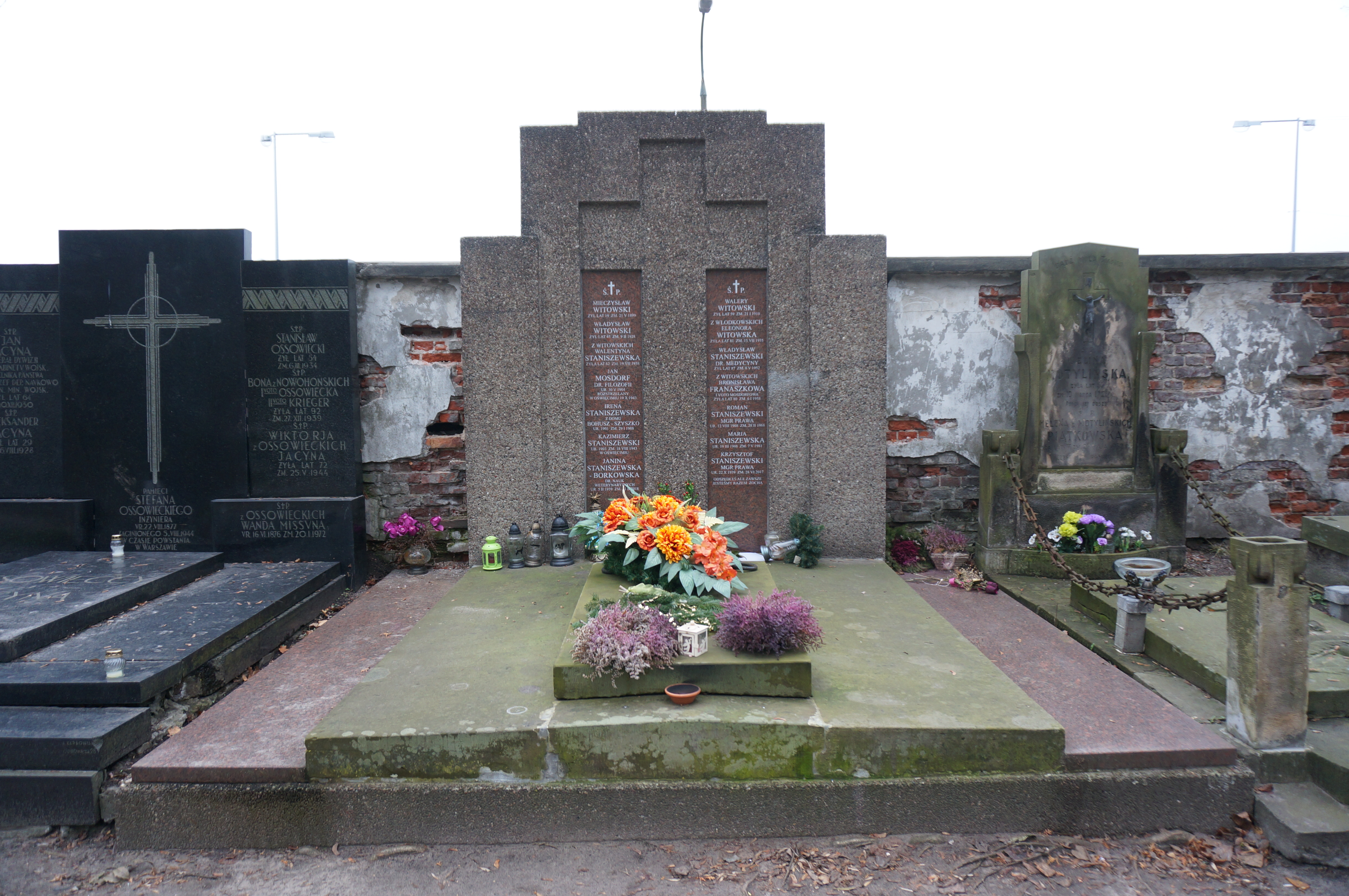 The grave of Jan Mosdorf at the Powązki Cemetery (section PPRK, row 1, grave 76, 77, 78)